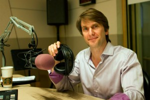 Professor Marshall Van Alstyne on NPR's "On Point"